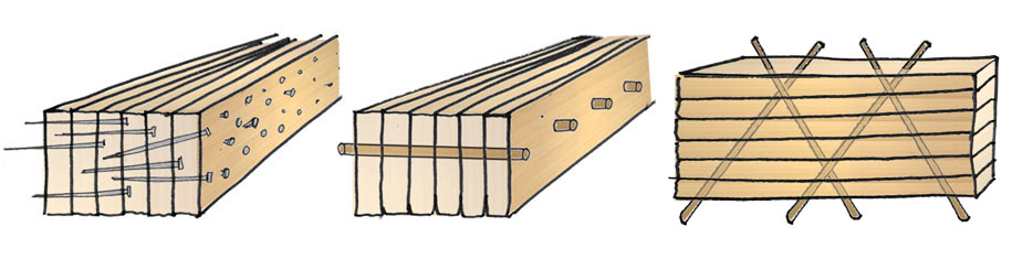 From left: Nailed Brettstapel (1970's); Dowelled Brettstapel (1999); Diagonally Dowelled Brettstapel (2001)